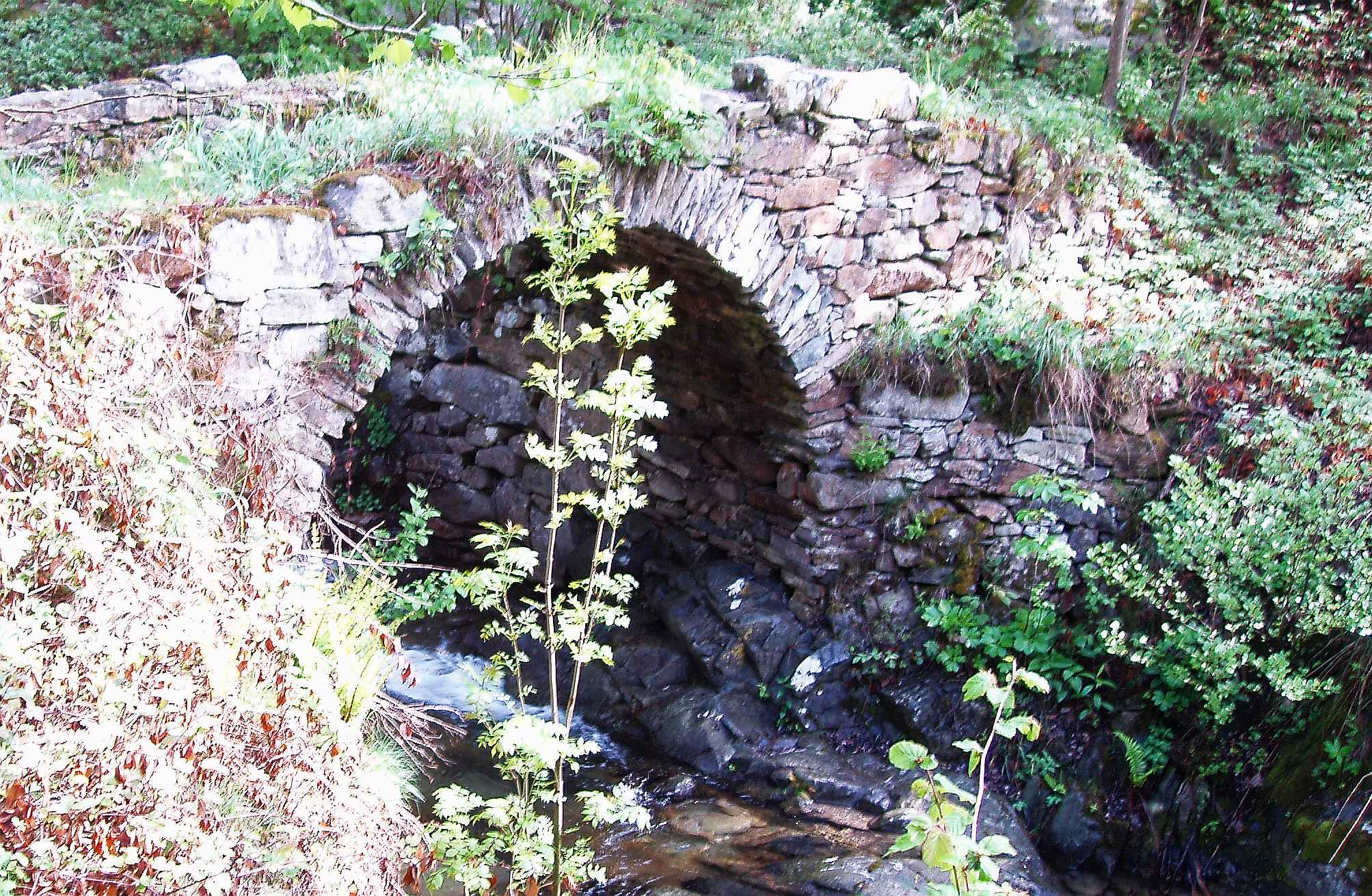 Cusard bridge on the Tesso creek (TO, Italy)